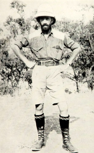 W. Robert Foran at the end of the Smithsonian–Roosevelt African Expedition